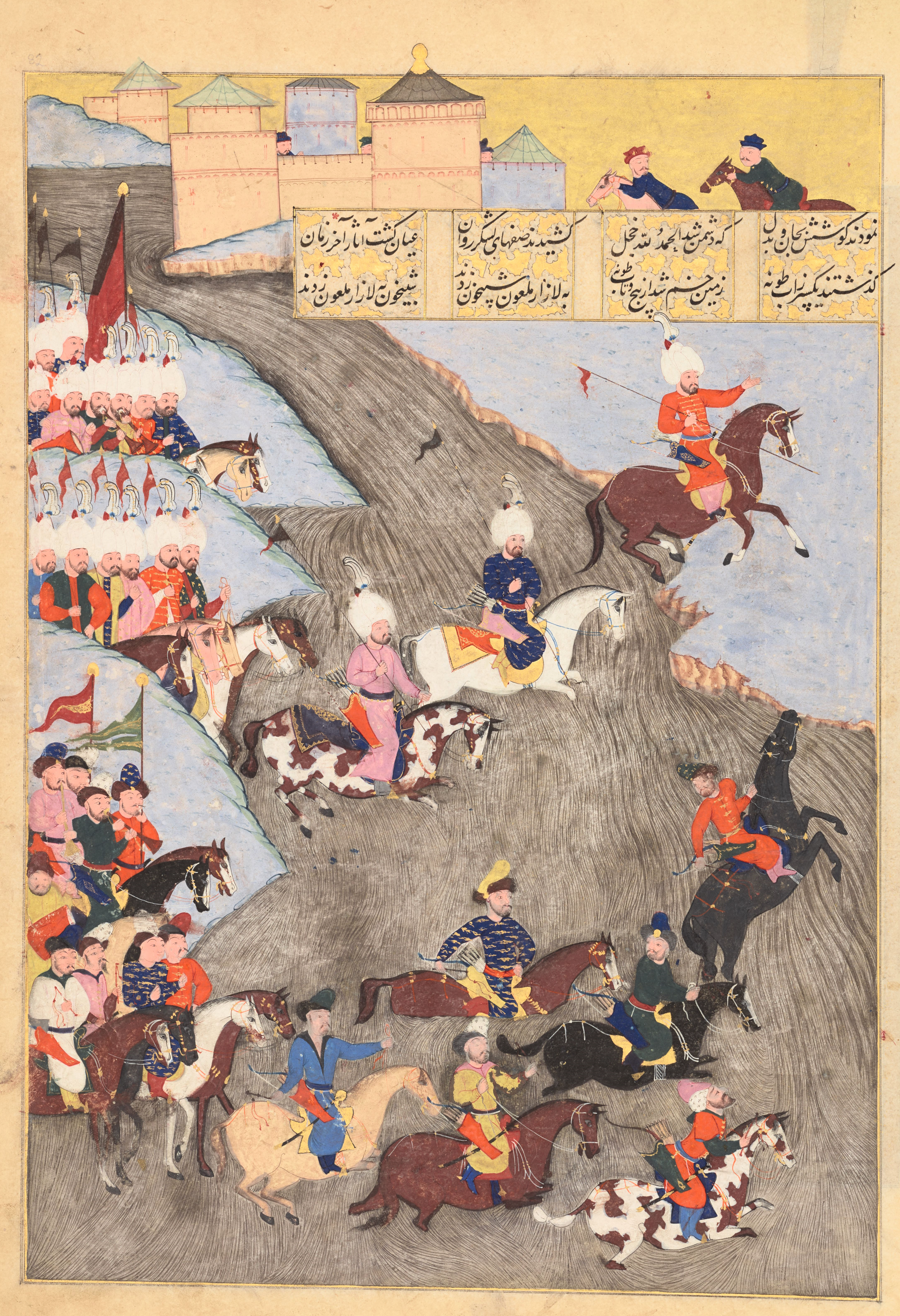 Illustrations of Ottoman soldiers from the Tarih-i-Suleyman